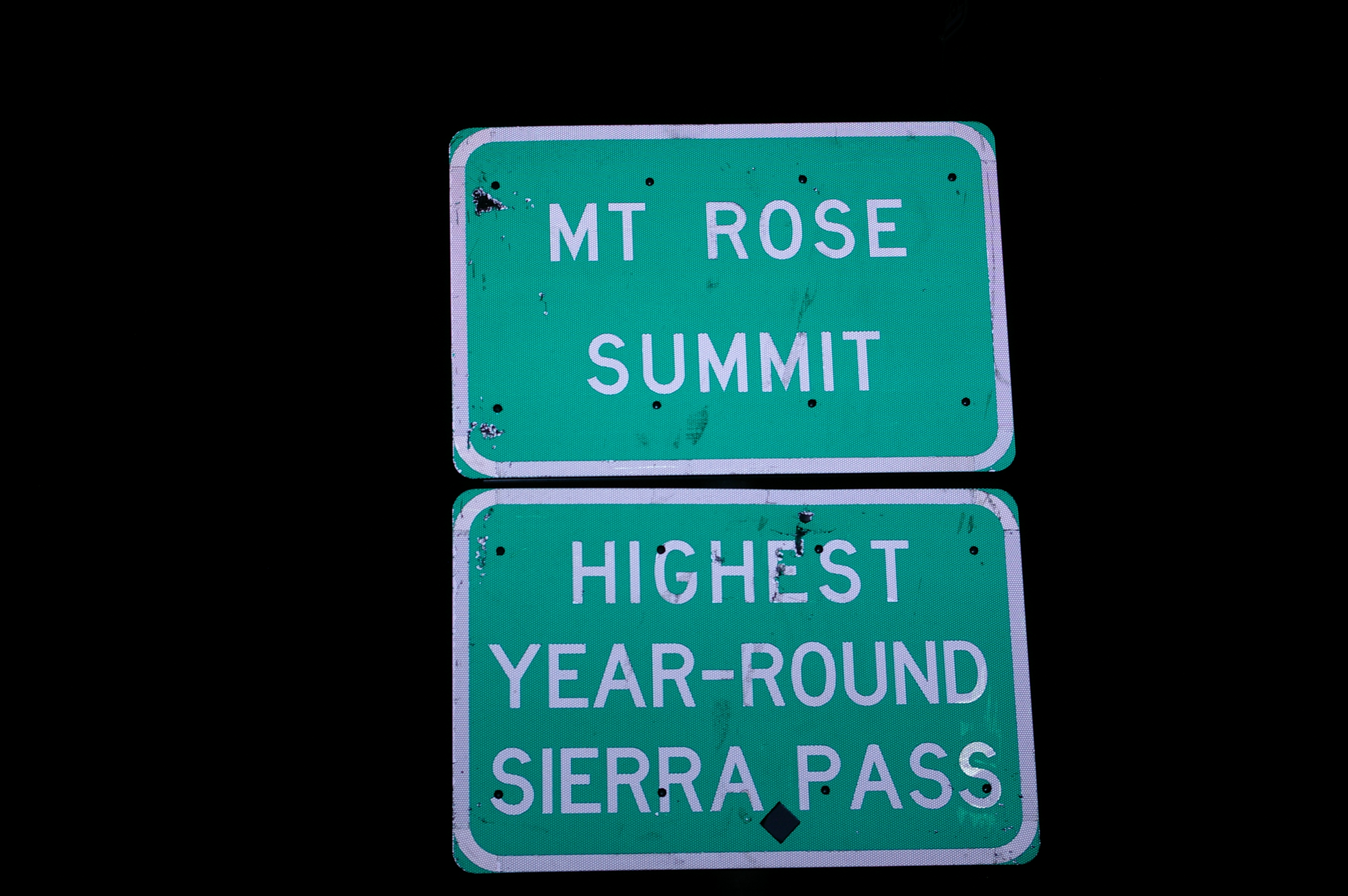 Sign along Nevada State Route 431. The Nevada Department of Transportation spends a lot of effort to let travelers know this is the highest year round pass in the Sierra Nevada mountain range